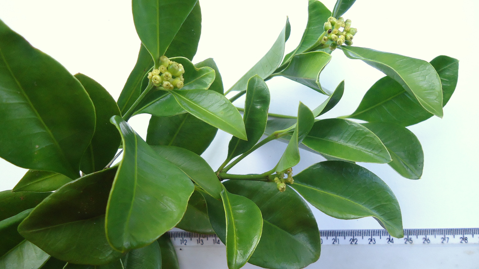 Margaritopsis sp., Rubiaceae, Atlantic forest, northeastern Bahia, Brazil